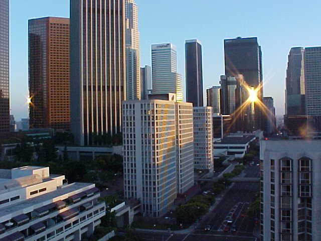 Photo taken by Bobak Ha'Eri. Taken July 16, 2001. Please observe license and properly cite in use outside Wikipedia.